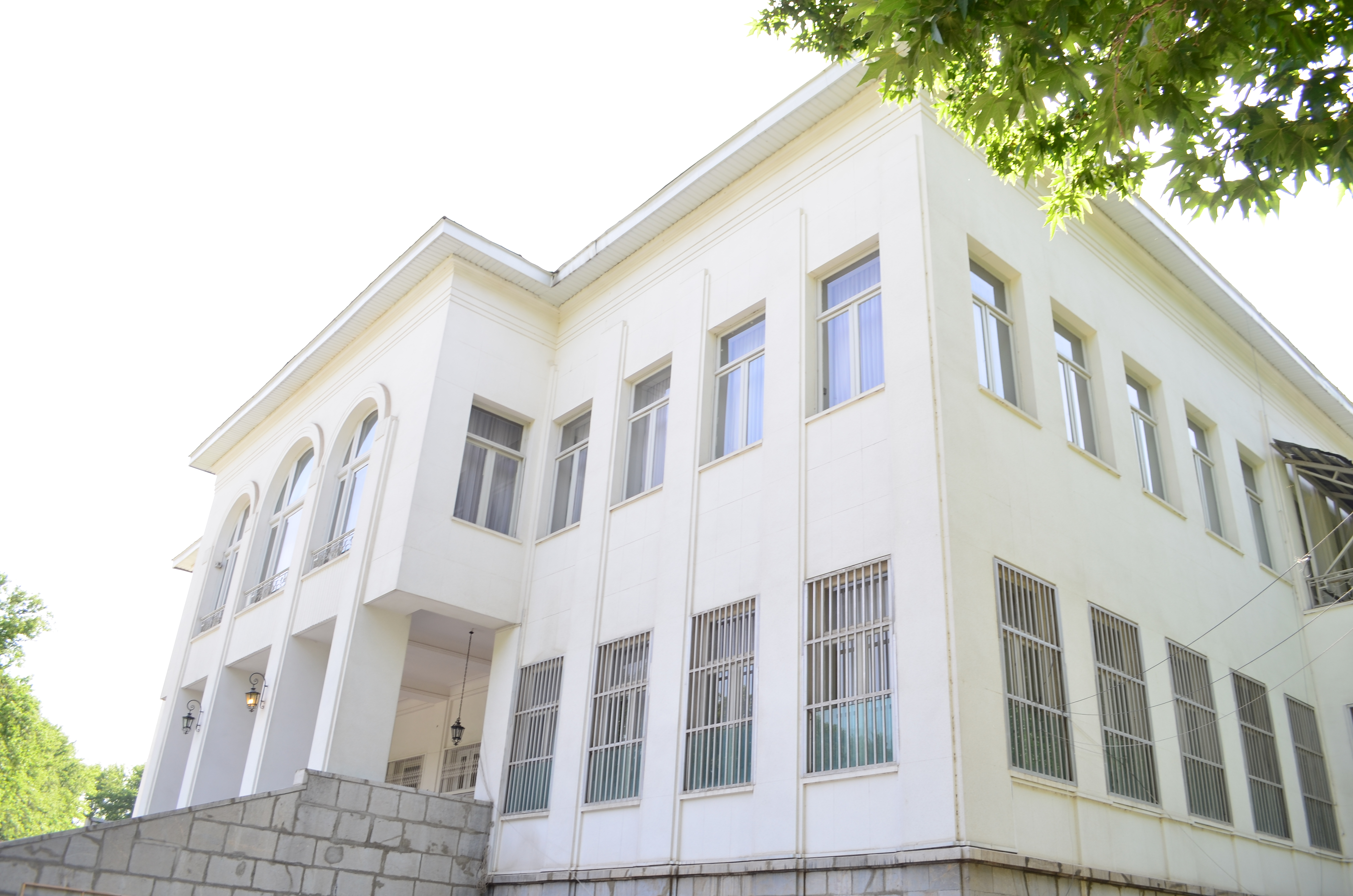 The Sa'dabad Palace royal complex — in Tehran, Iran.